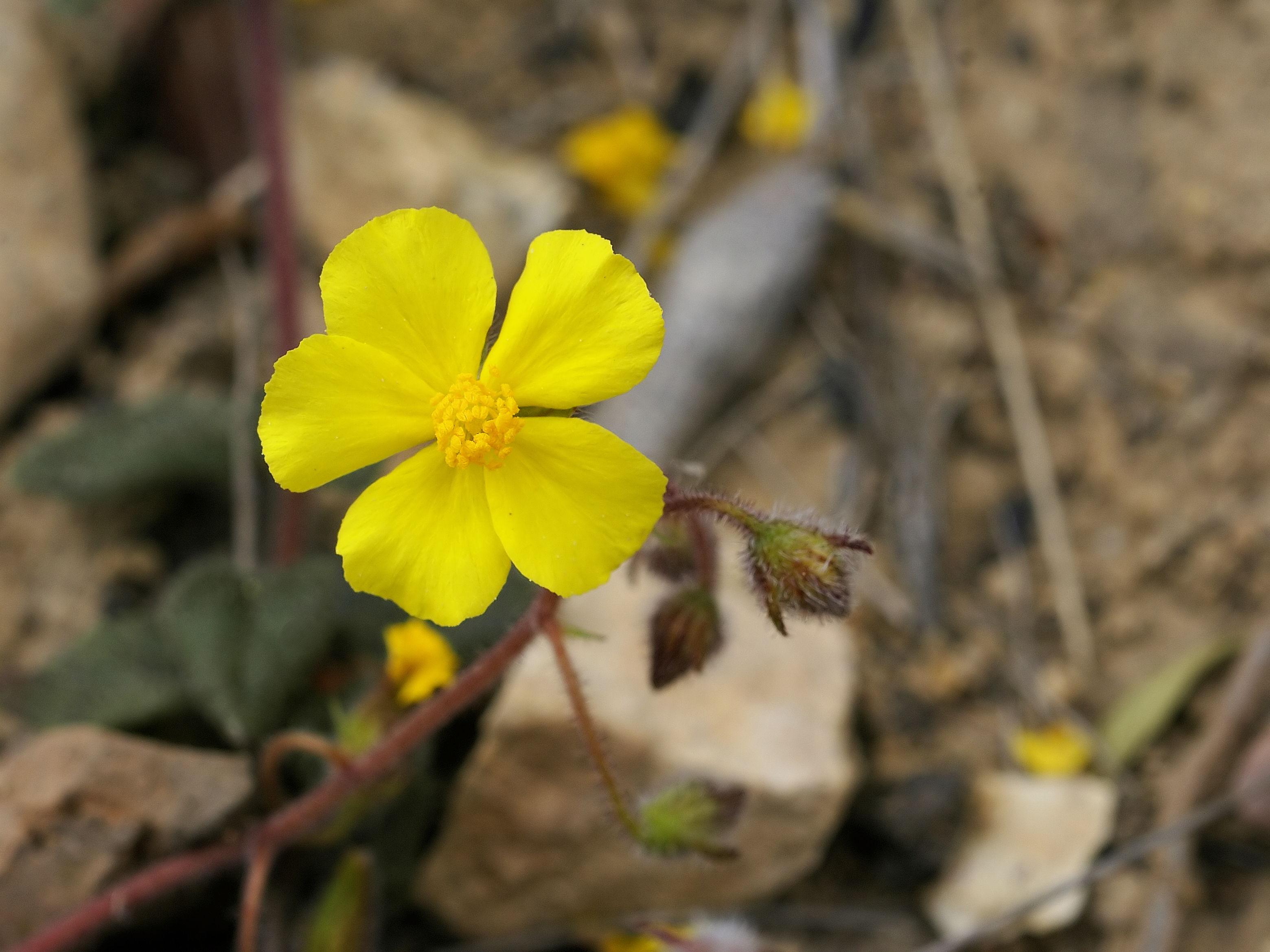 near el Perelló, Catalonia, Spain